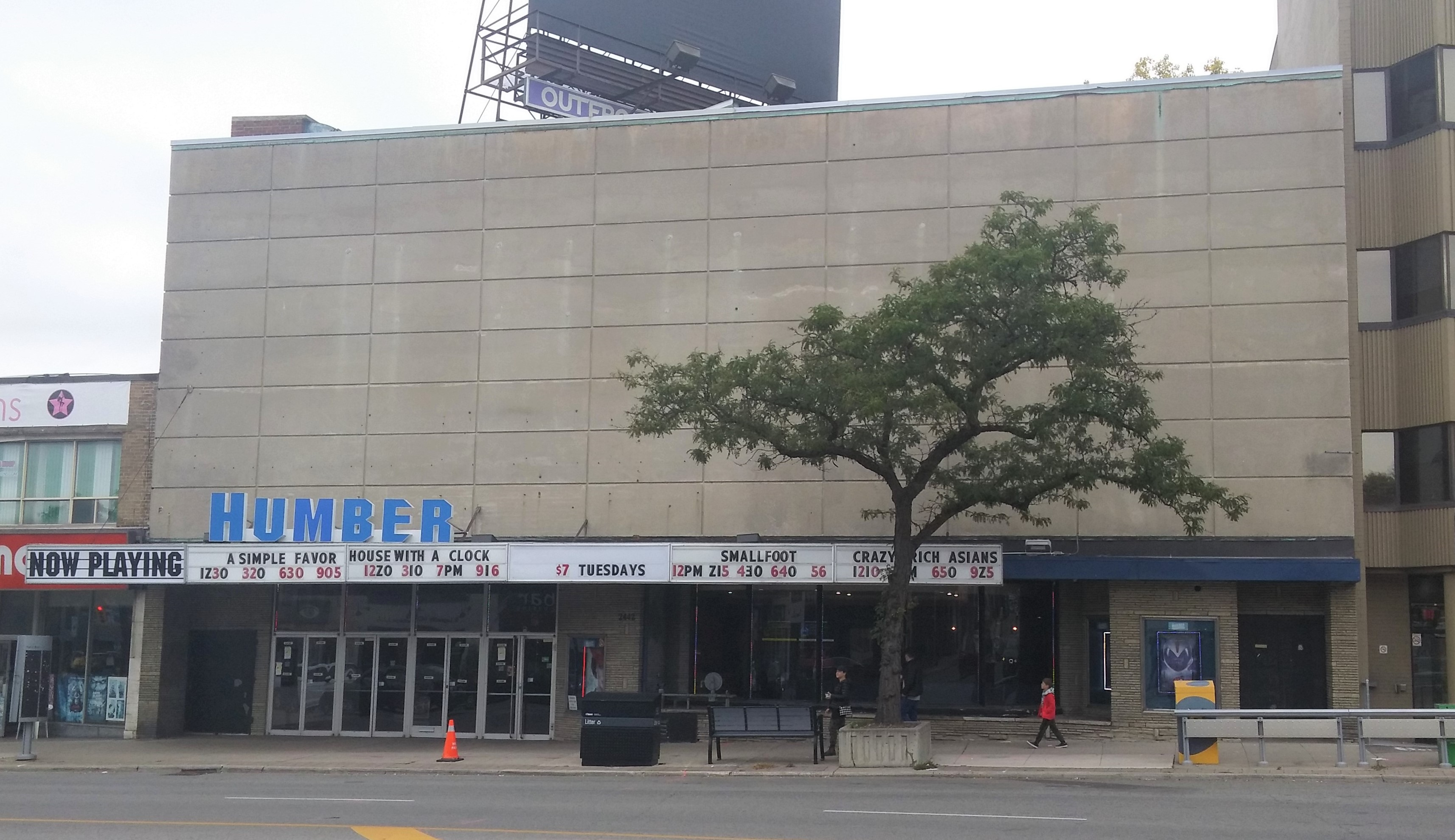 The outside of Humber Cinemas in Toronto, Canada.